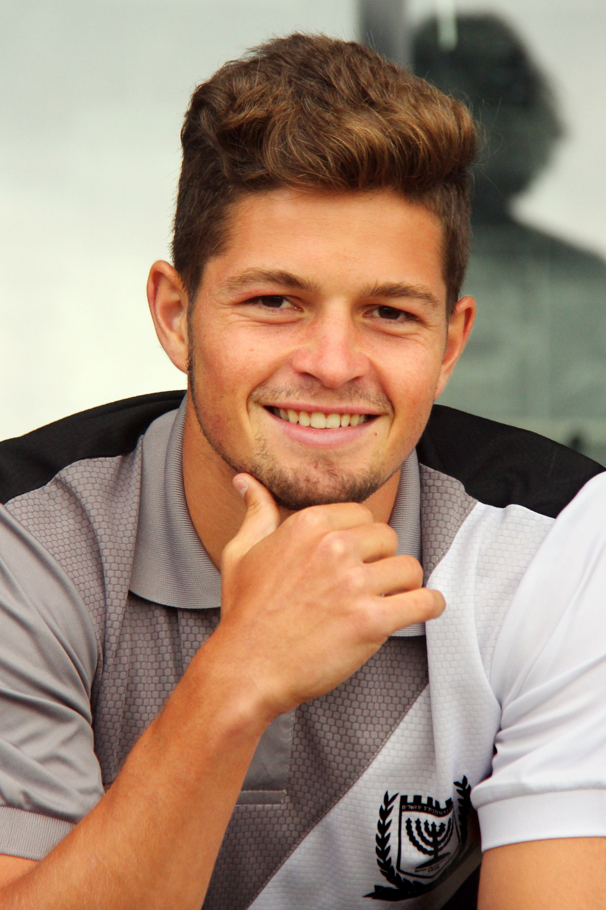 Friendly match between Beitar Jerusalem F.C. (yellow shirts) and MTK Budapest FC (blue shirts) at 2016-06-18 in Bad Erlach (Austria. – The photo shows David Keltjens, Beitar Jerusalem F.C.